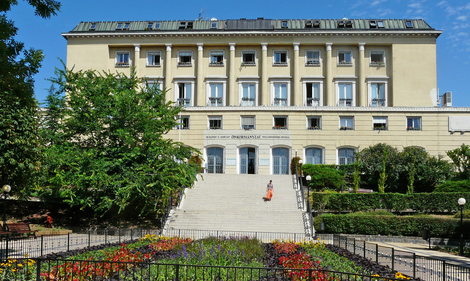 Budapest, 2. distr., District council